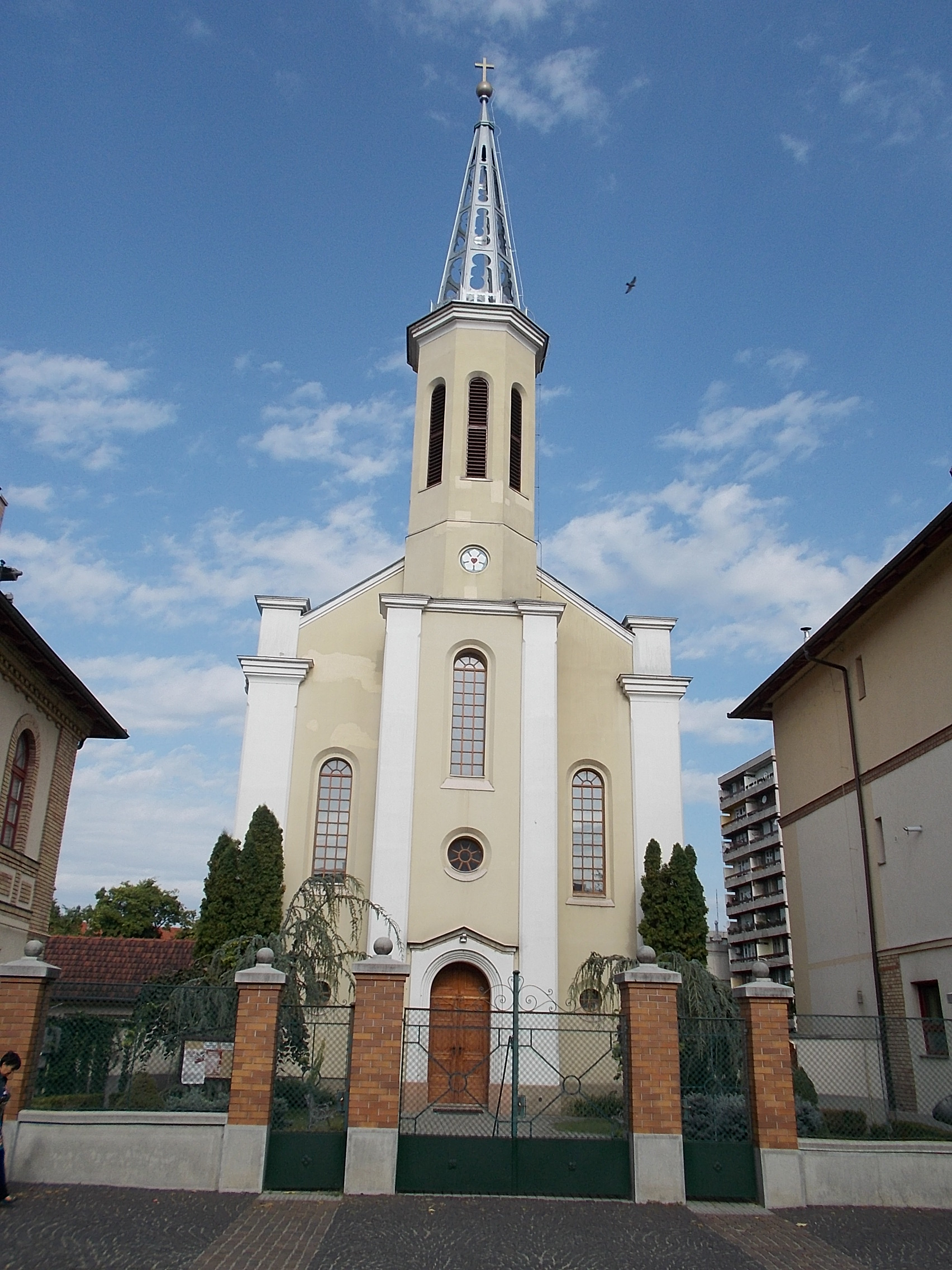 Evangelical Church of Vác. Planned by Edmund Krempe (architect from Budapest). Single nave Romantic church. The altar made by Ede Török and showing Jesus on Cricifix. Consecrated by Superintendant Bishop József Székács. - Széchenyi István Street, Vác, Pest County, Hungary.